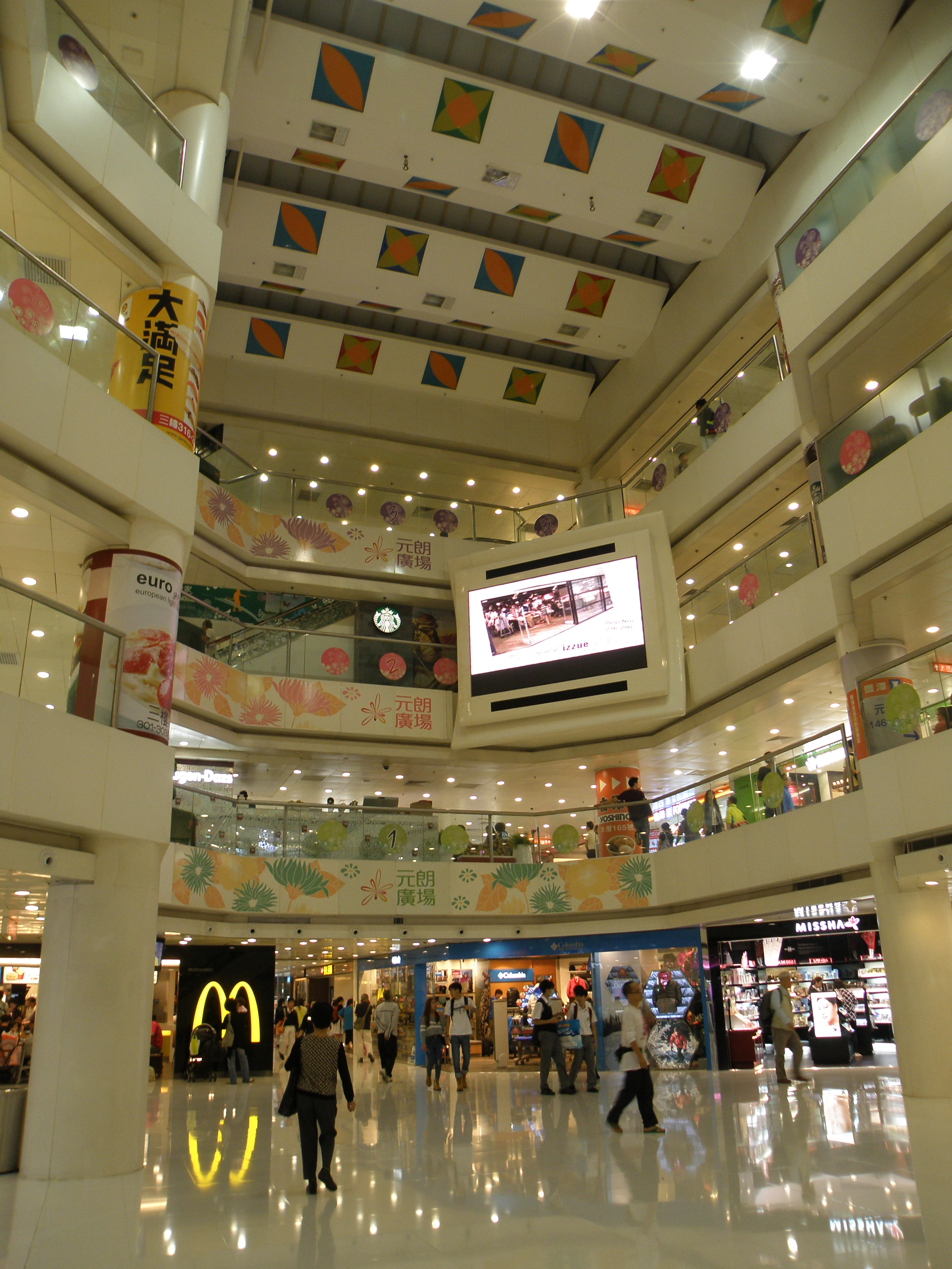 Yuen Long Plaza in Yuen Long, Hong Kong.